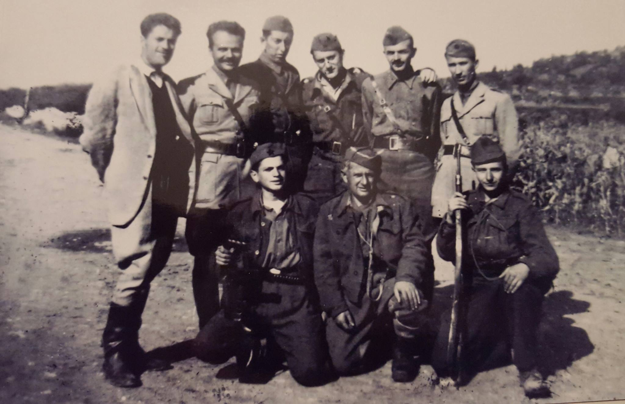 Siri Strazimiri dhe disa nga shoket e tij .